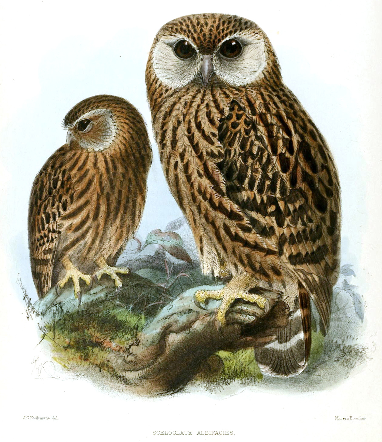 Sceloglaux albifacies, Laughing owl.